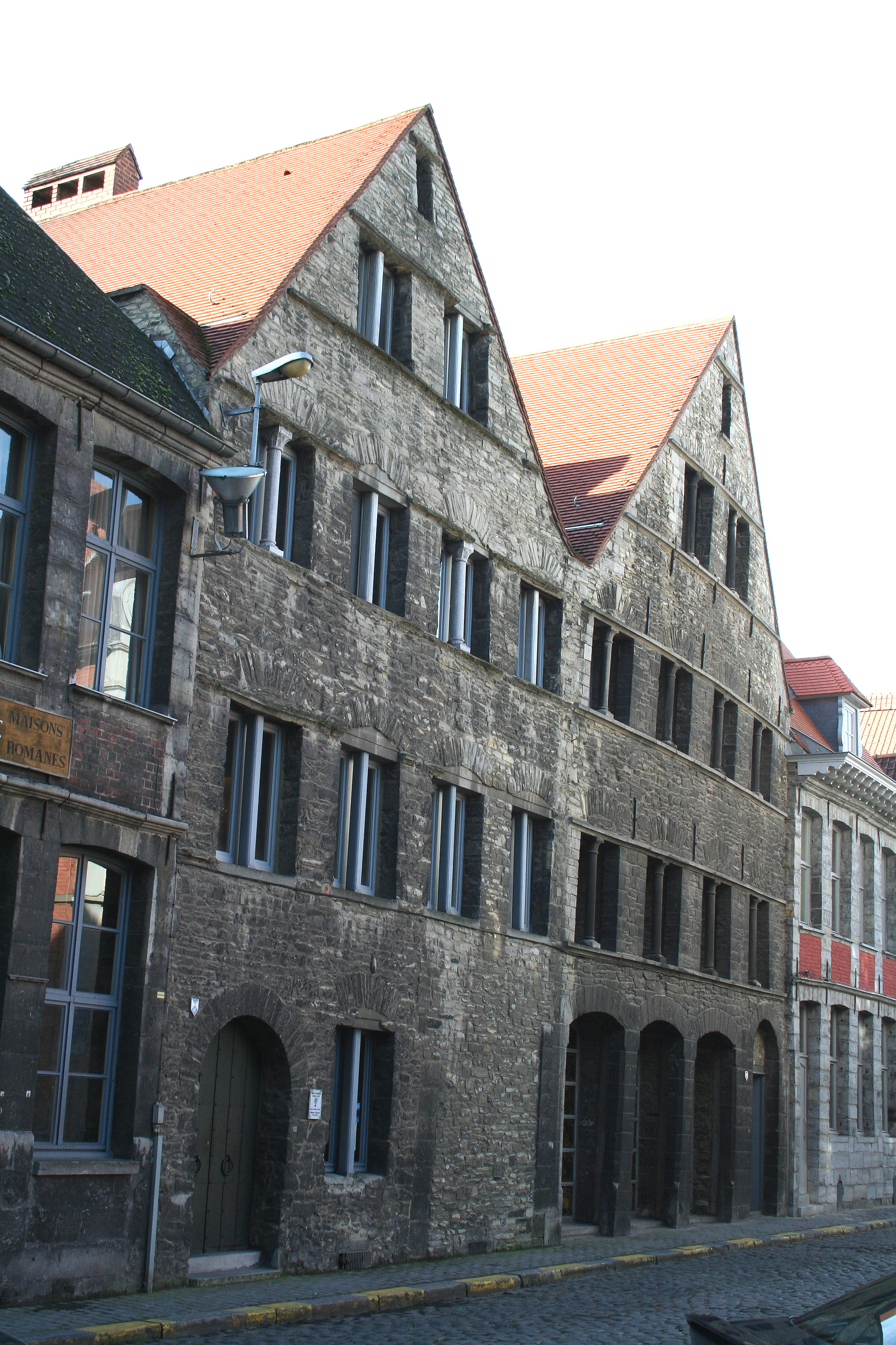 Tournai (Belgium, rue Barre Saint-Brice, 12-14 – Romanesque houses (1175-1200).